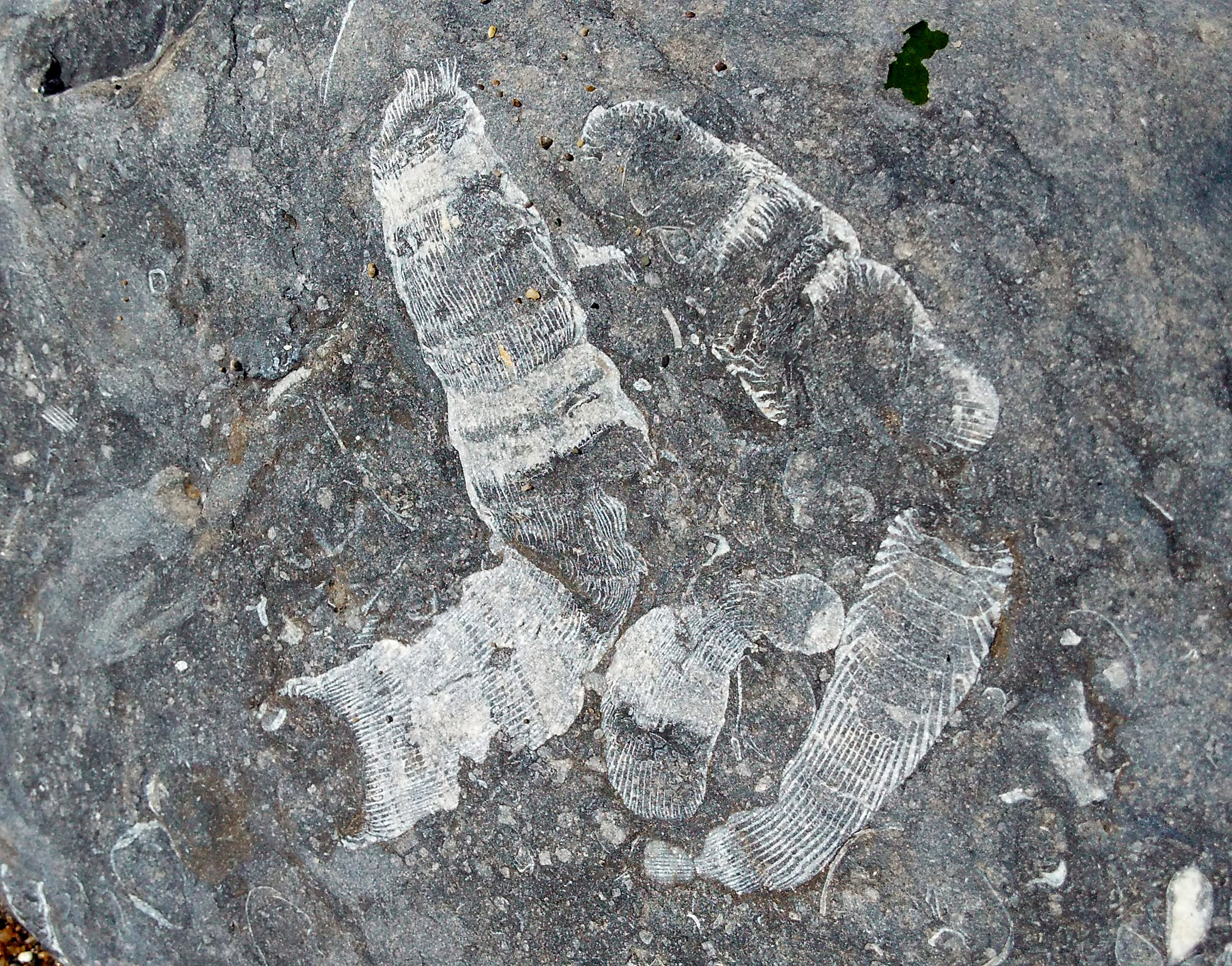 A few rugose coral fossils in a rock on the foreshore just south of Ogmore.